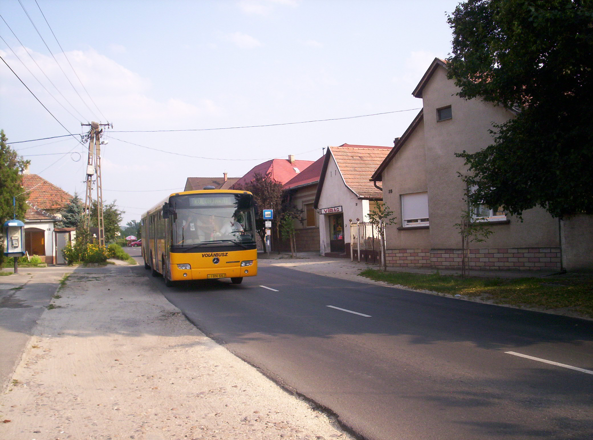 Mercedes Conecto bus in Fót